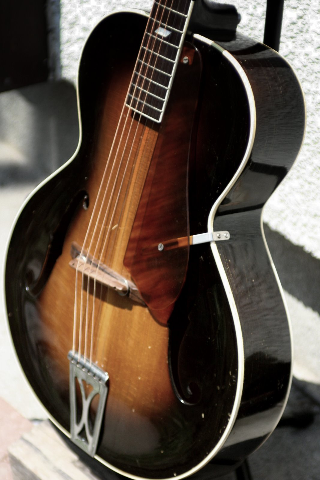 epiphone blackstone 1945